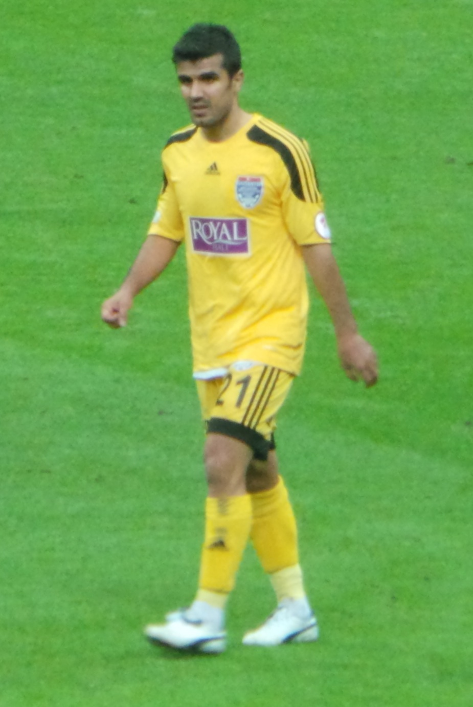 Vedat Budak